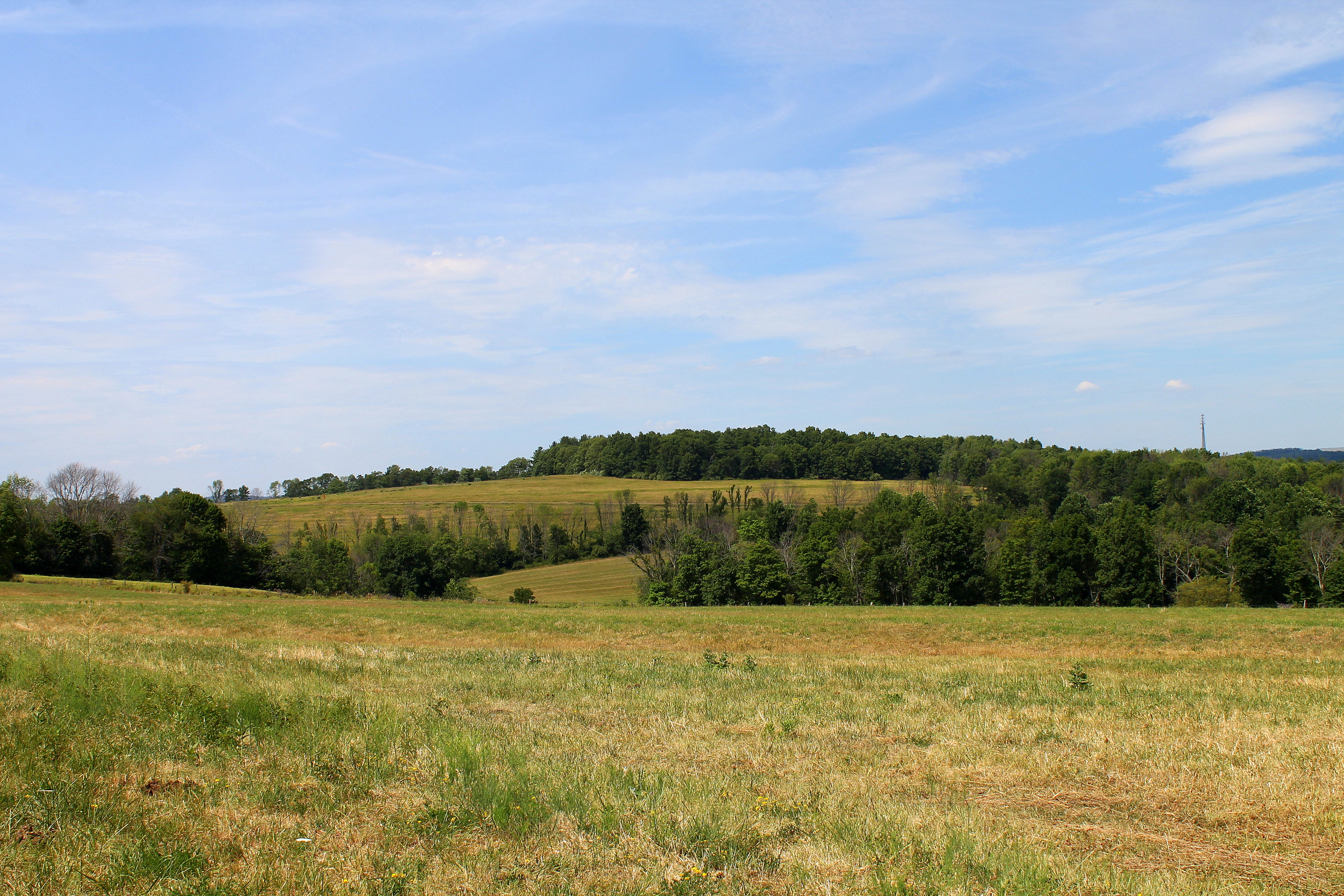 Scenery of Mehoopany Township, Wyoming County, Pennsylvania, in the foothills of Mehoopany Mountain and Doll Mountain.